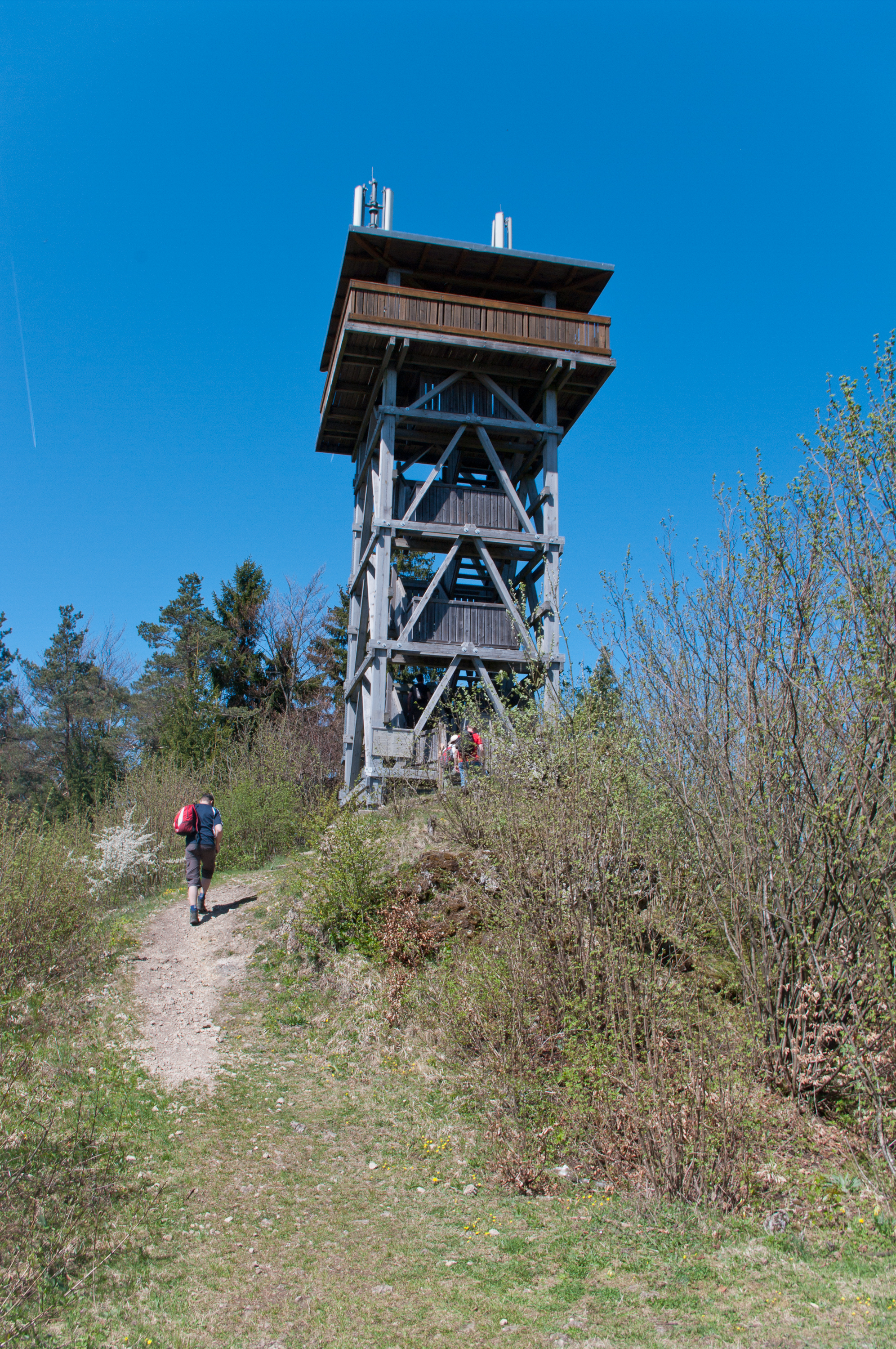 Kleiner Kulm, Bavaria (near Pegnitz), Observation tower